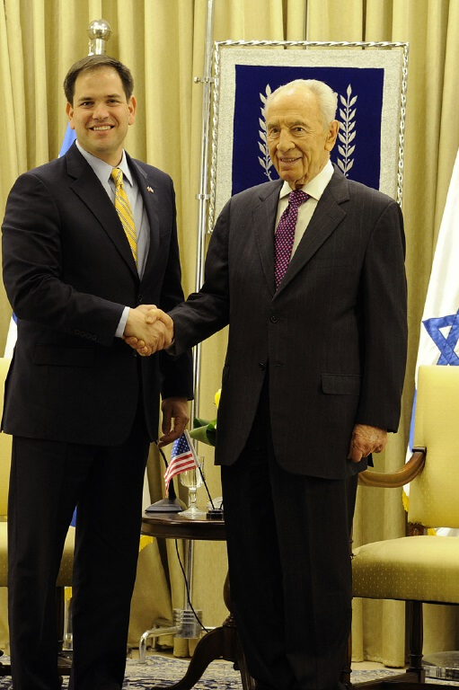 U.S. Senator Marco Rubio meeting in February 2013 with Israeli President Shimon Peres during trip to Jordan and Israel.